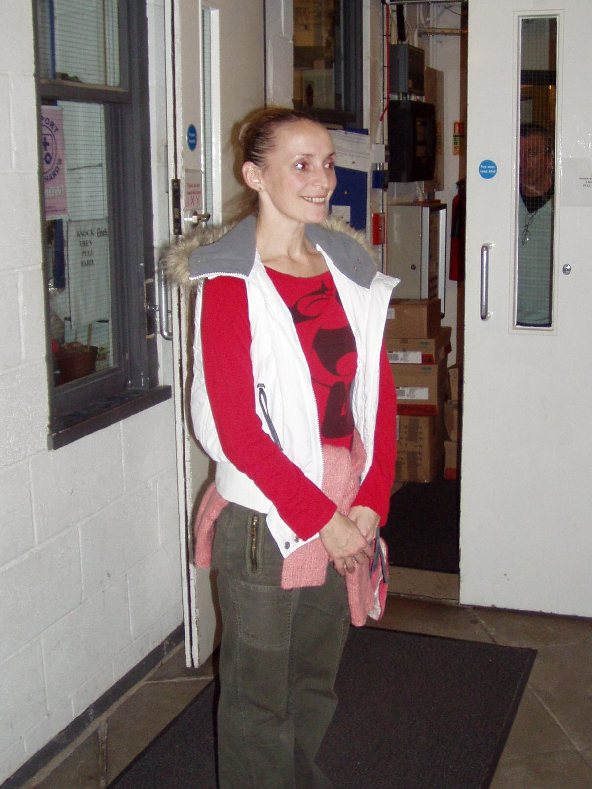 Anna Podlesnaya poses for photographs at the stage door of the Chichester Festival Theatre.